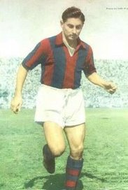 Image of Angel Berni playing for San Lorenzo cropped from an image taken in 1955